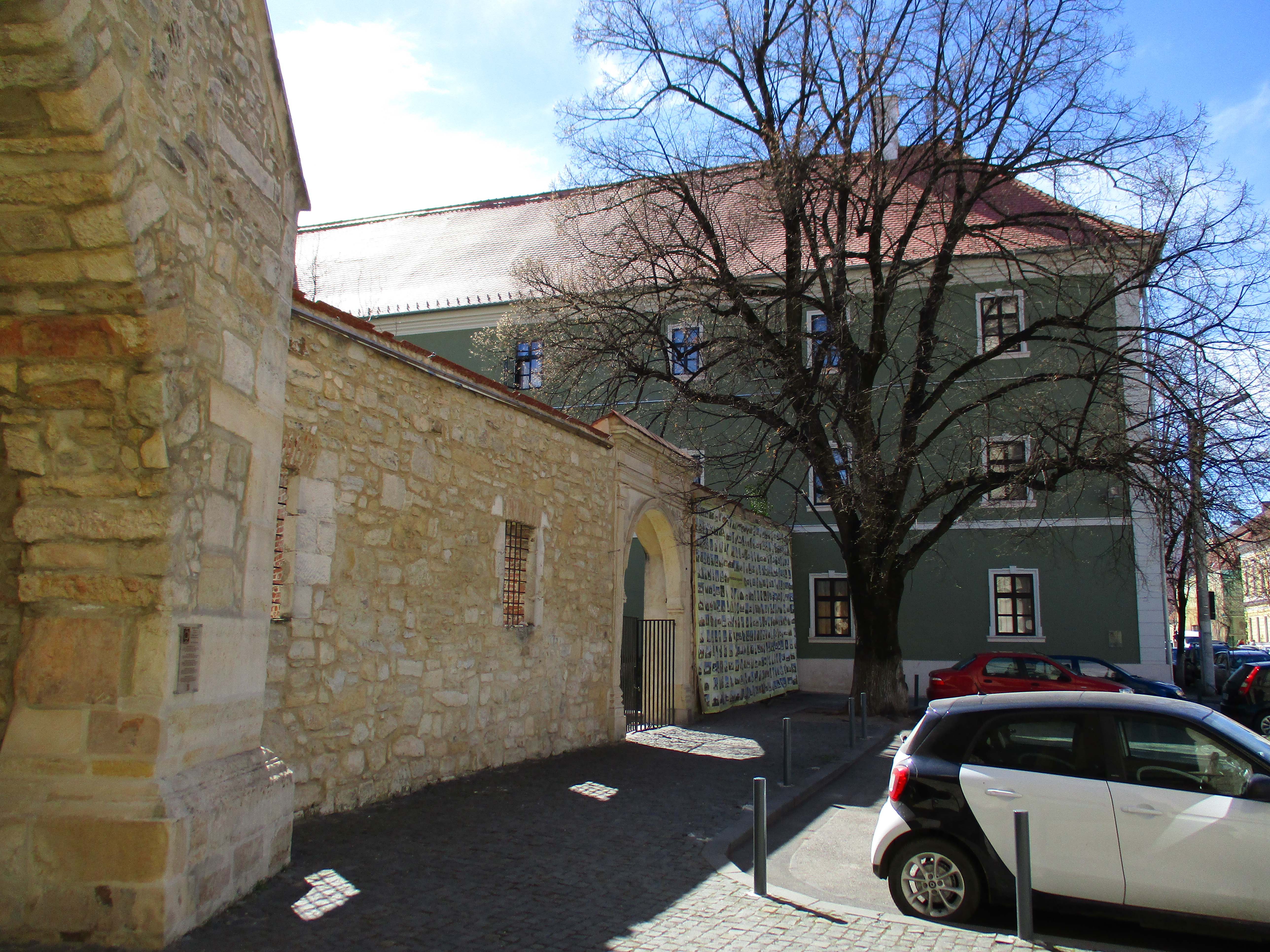 Wall of the former Protestant College in Cluj